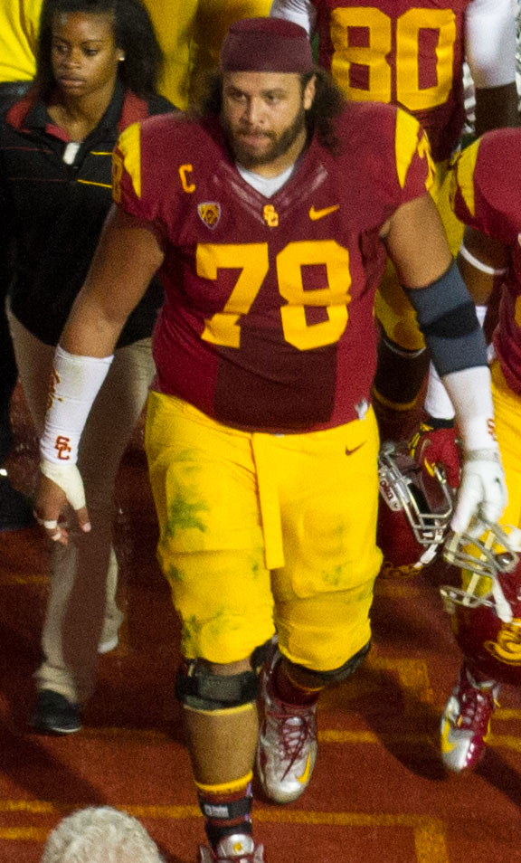 Khaled Holmes after a game in the 2012 USC Trojans season.